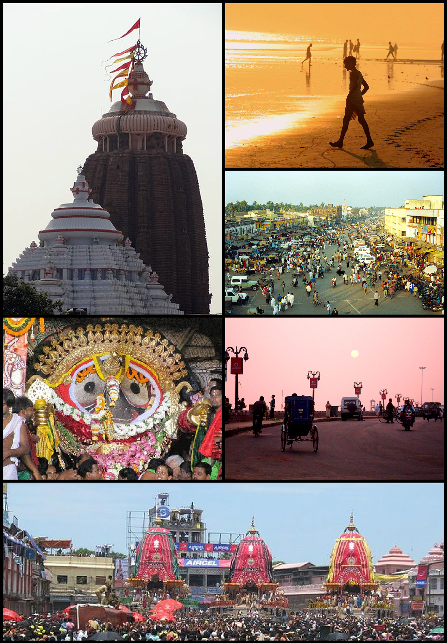 Montage of Puri with Images from wikimedia commons